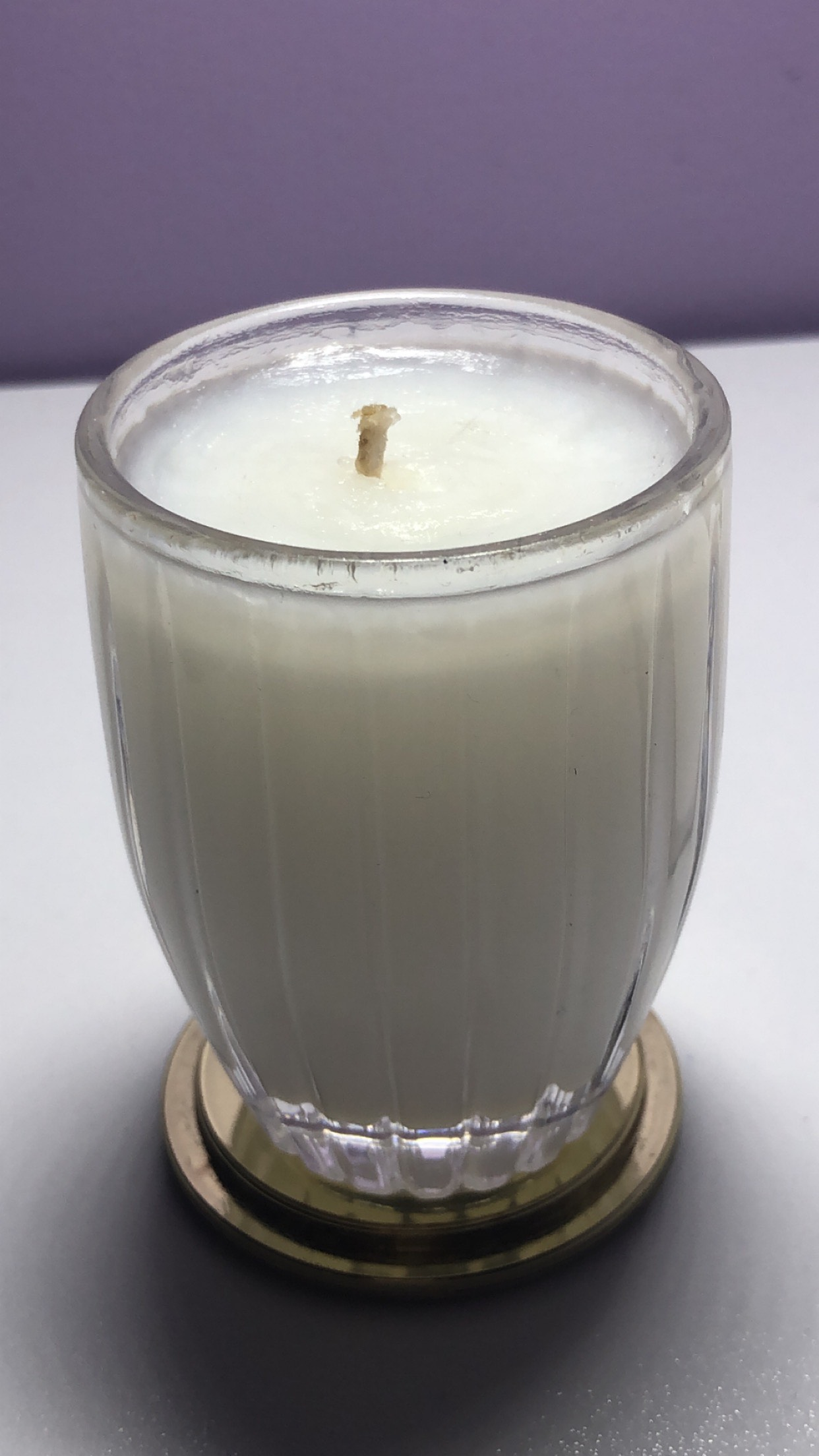 This is a scented candle with a gold stand.